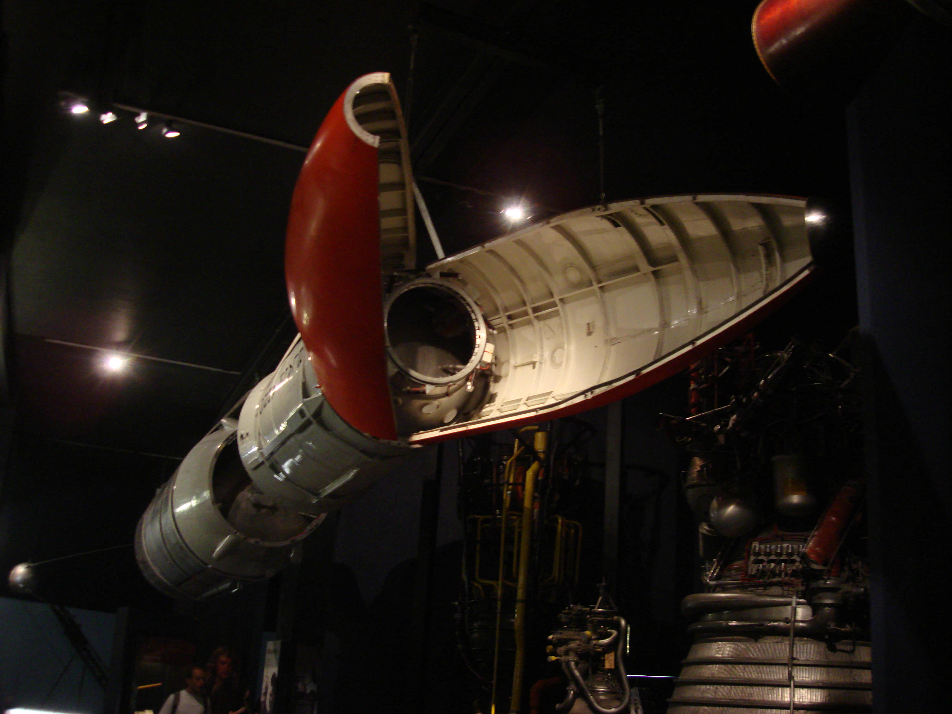 Black Arrow carrier rocket at the Science Museum (London)